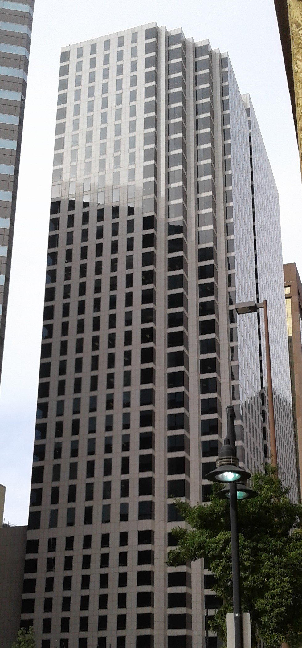 South facade of the Harwood Center building in downtown Dallas